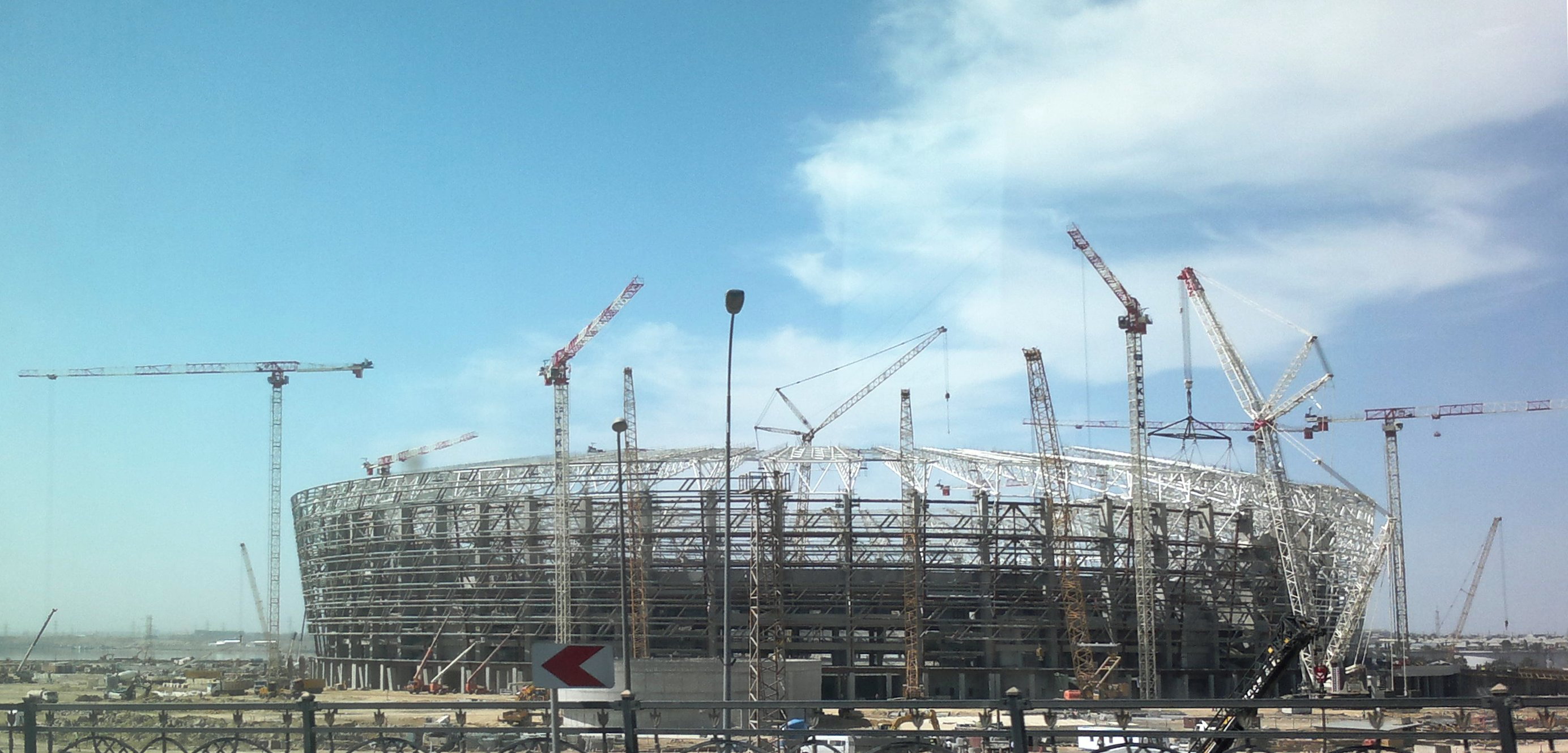 Construction of Olympic stadium in Baku